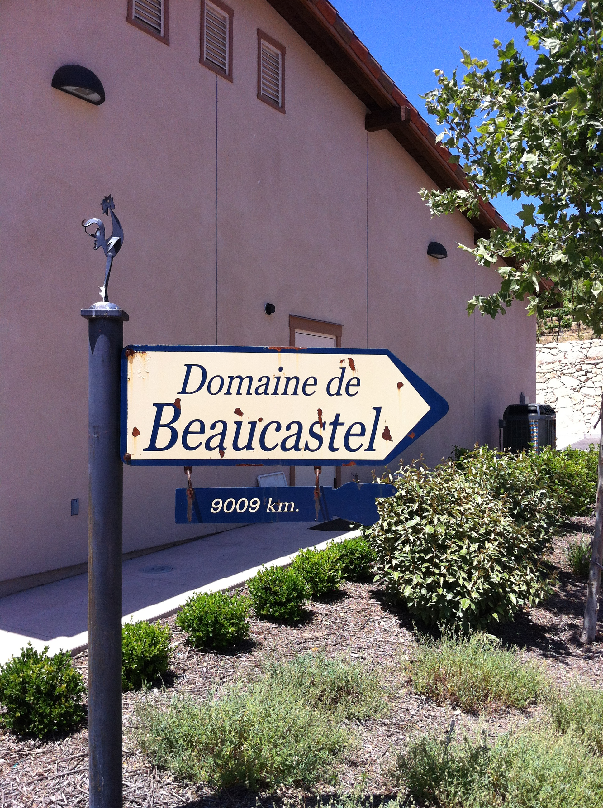 Sign at the Central Coast California winery Tablas Creek in Paso Robles showing the distance to their sister winery Château de Beaucastel in Châteauneuf du Pape of France.